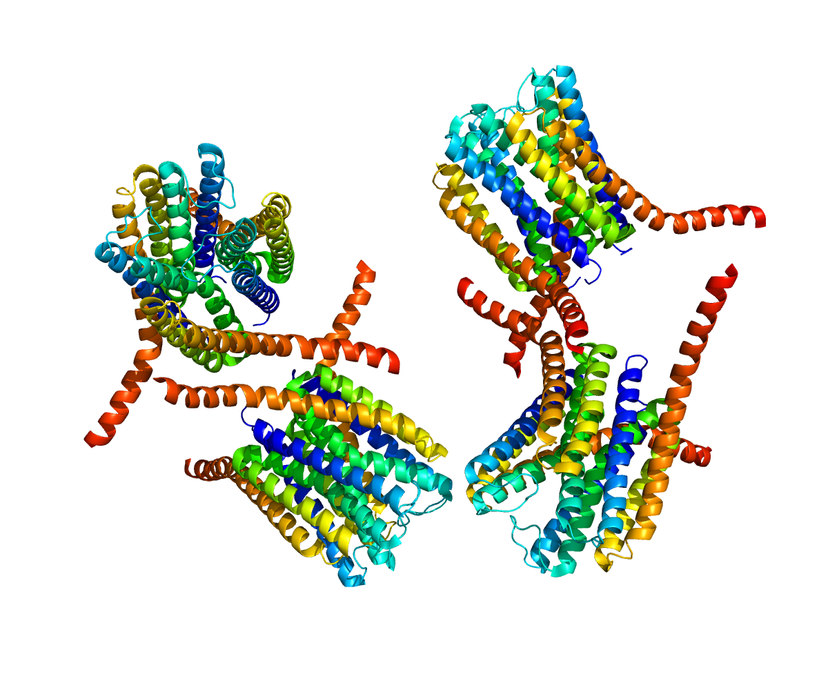 Structure of protein LTC4S.Based on PyMOL rendering of PDB 2PNO.